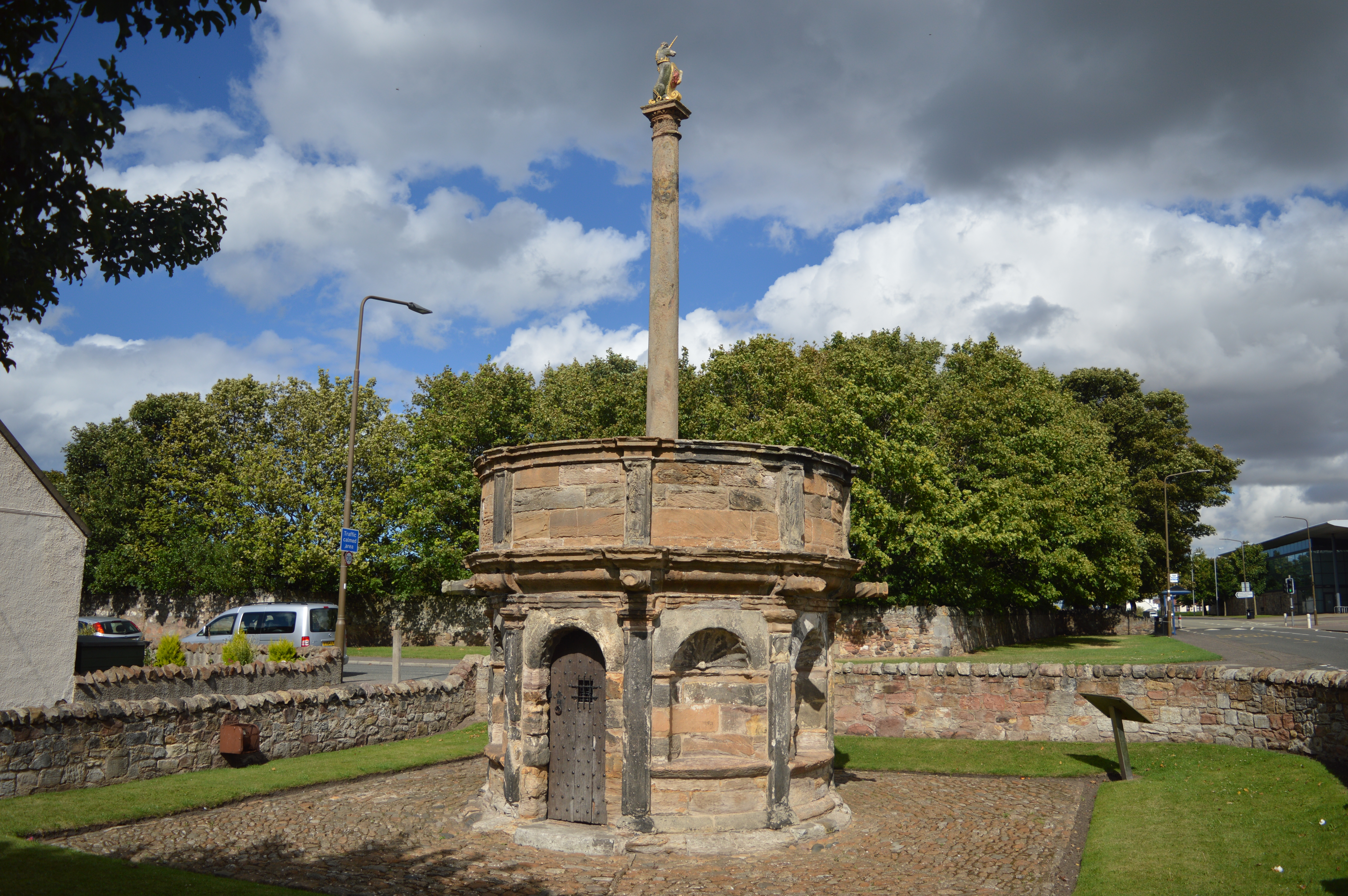 Prestonpans, Preston Cross Wikidata has entry Q17570019 with data related to this item.